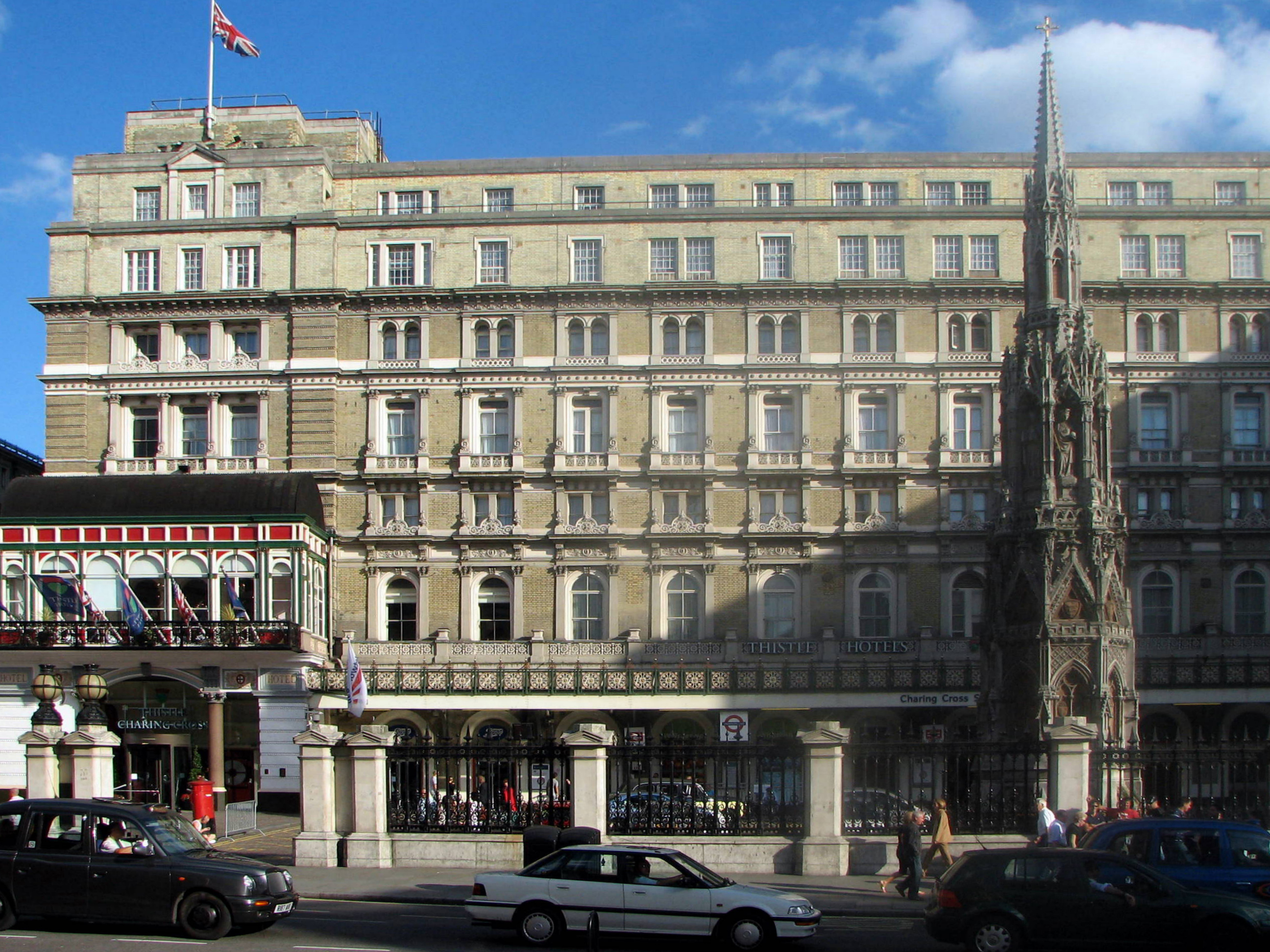 Charing Cross Station and Thistle Charing Cross Hotel, London